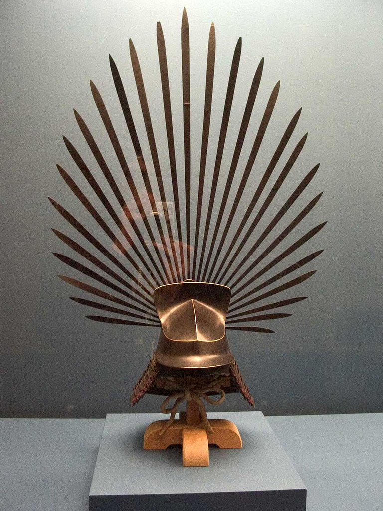 Antique Japanese (samurai) kawari kabuto with a ushirodate, a crest (datemono) worn on the back of a samurai kabuto (helmet).